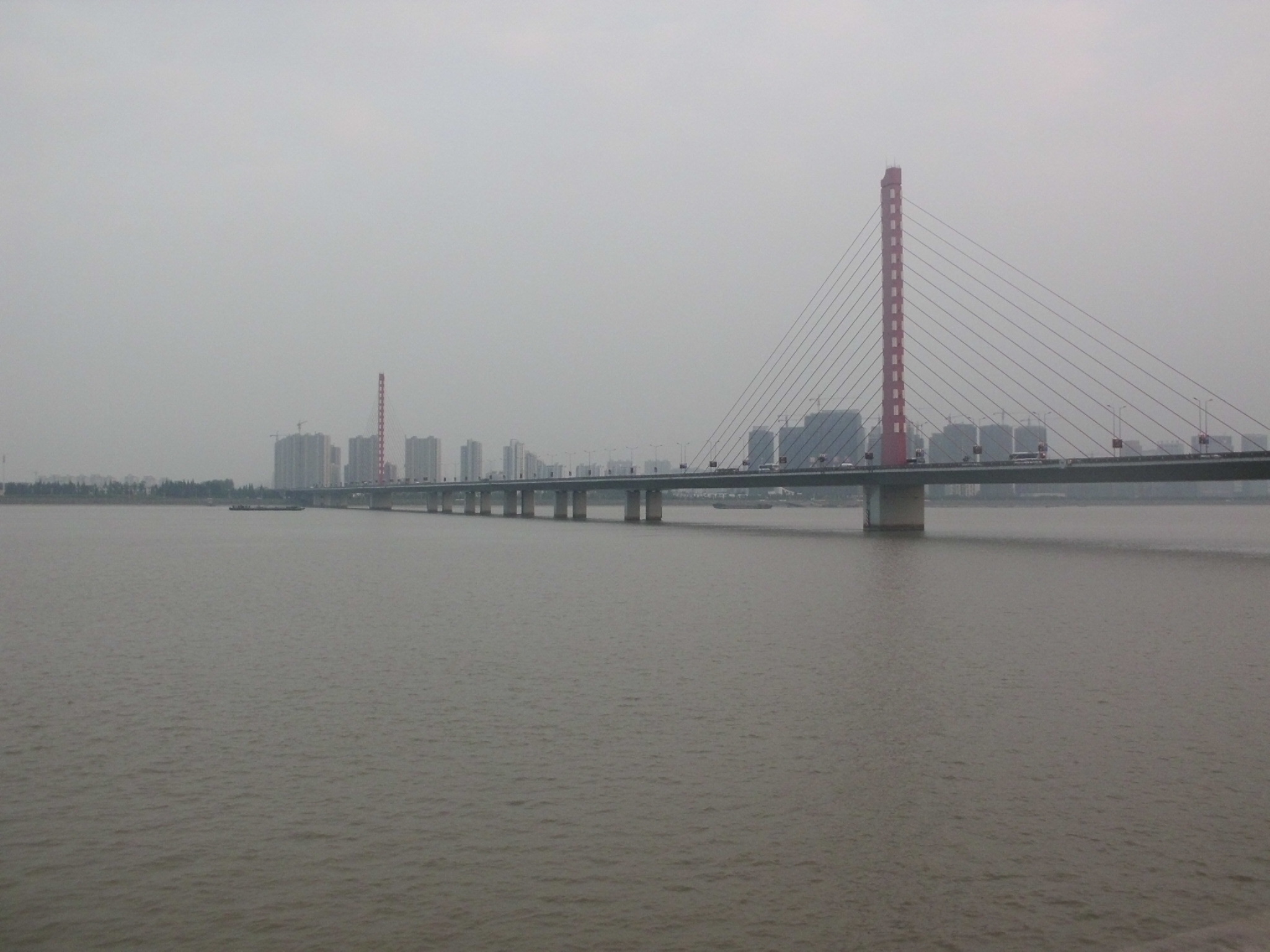 Third Qiantang River Bridge